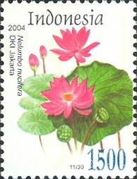 Stamps of Indonesia